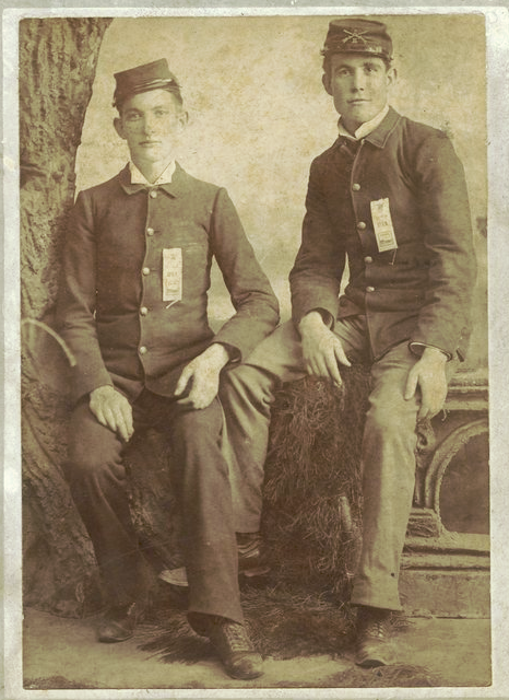 Civil War soldiers from Missouri. Daniel dies of smallpox in 1862, at the age of 16. Joseph, 18, is killed in The Battle of Vassar Hill, July 18, 1862, near Memphis, Missouri. Joseph was a member of the 2nd Regiment, Merrill's Horse, as noted by his hat. The number 2 for Second Missouri Cavalry, and H for Harkers Company. My Great Great Grand Uncles.